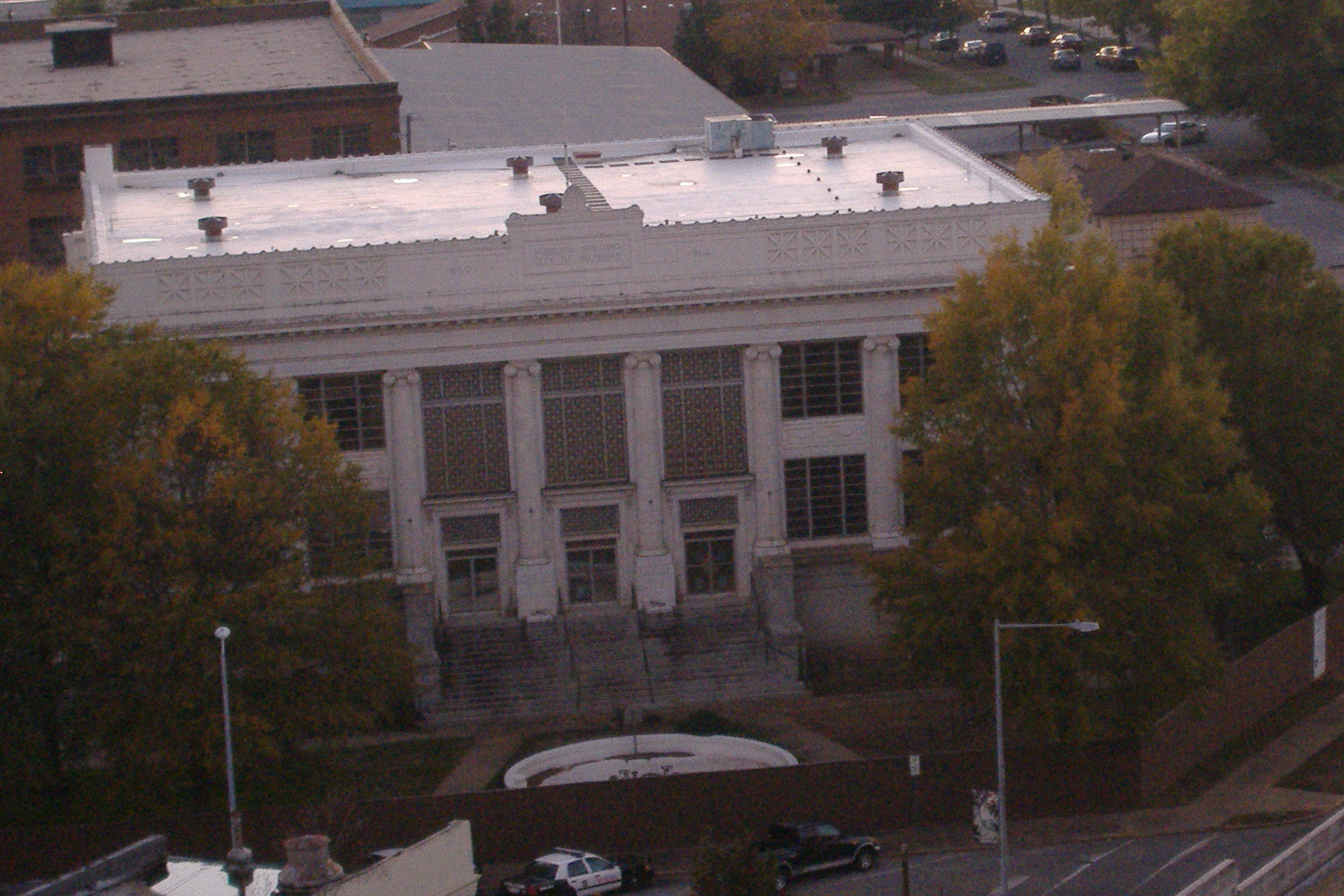 Meridian (Mississippi) City Hall in 2005 before restoration efforts